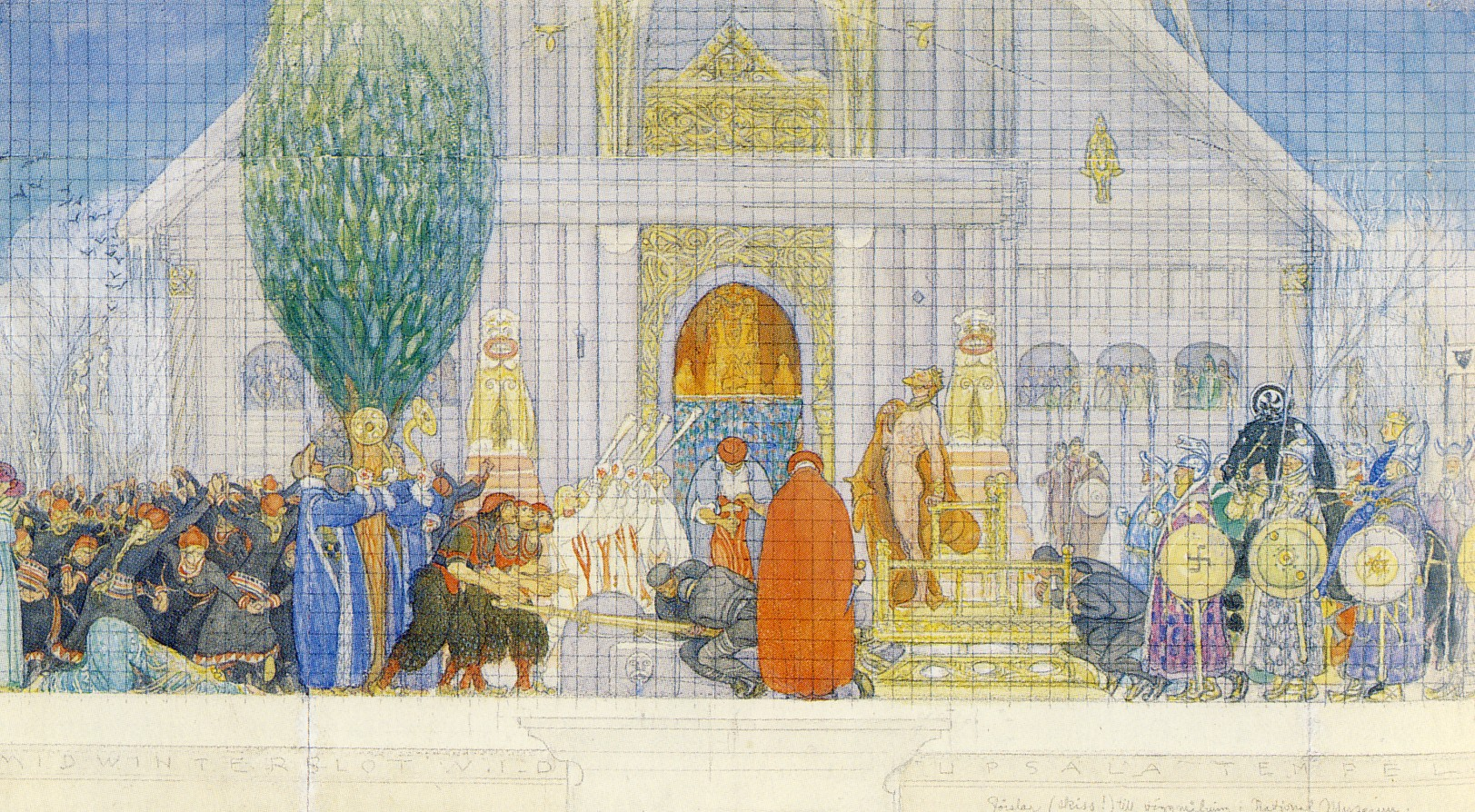 Carl Larsson, Midvinterblot, skiss 3, 1913. Blyerts, gouache, kvadrerad i blyerts, 44,5 x 78 cm